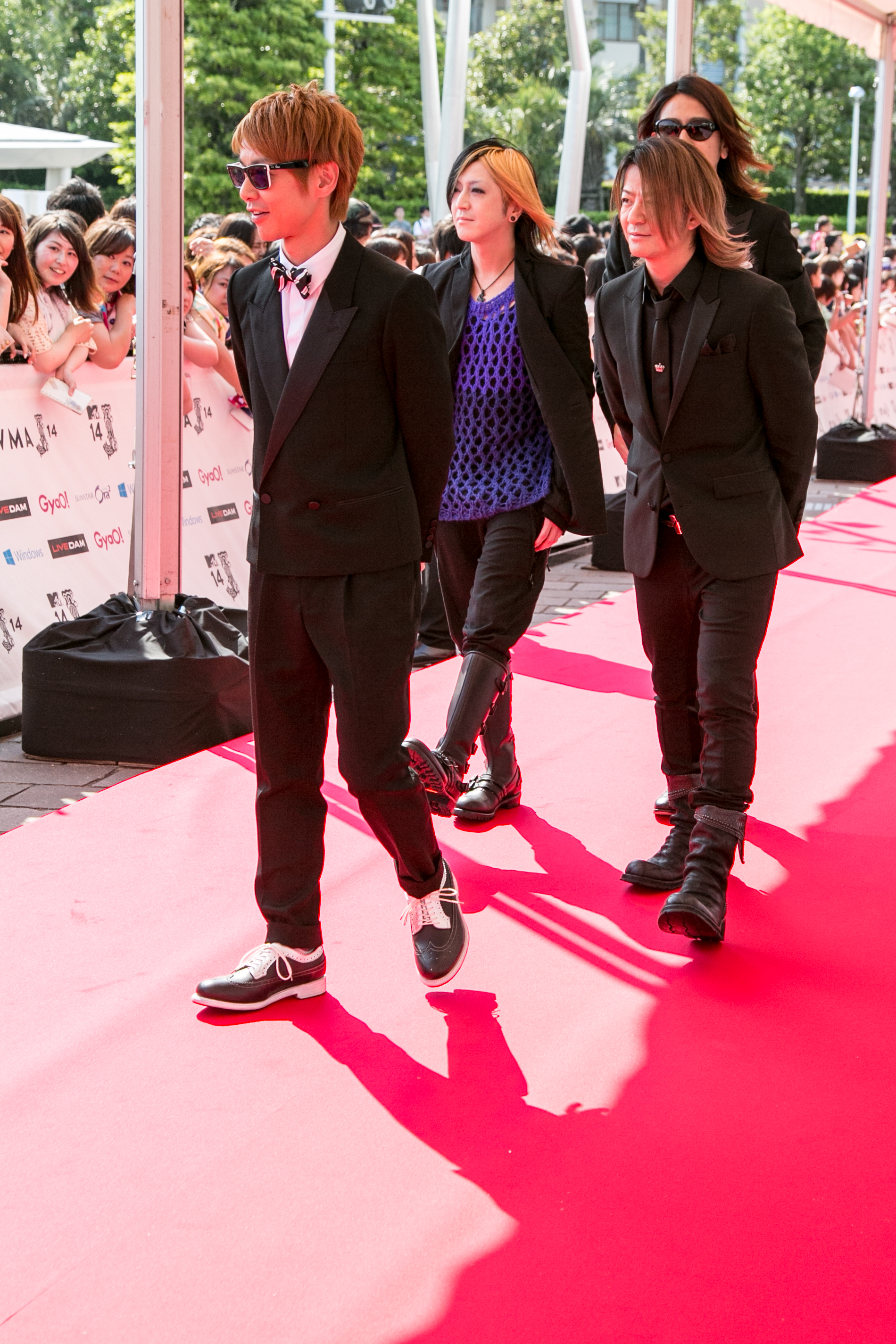 Glay at the 2014 MTV Video Music Awards Japan.